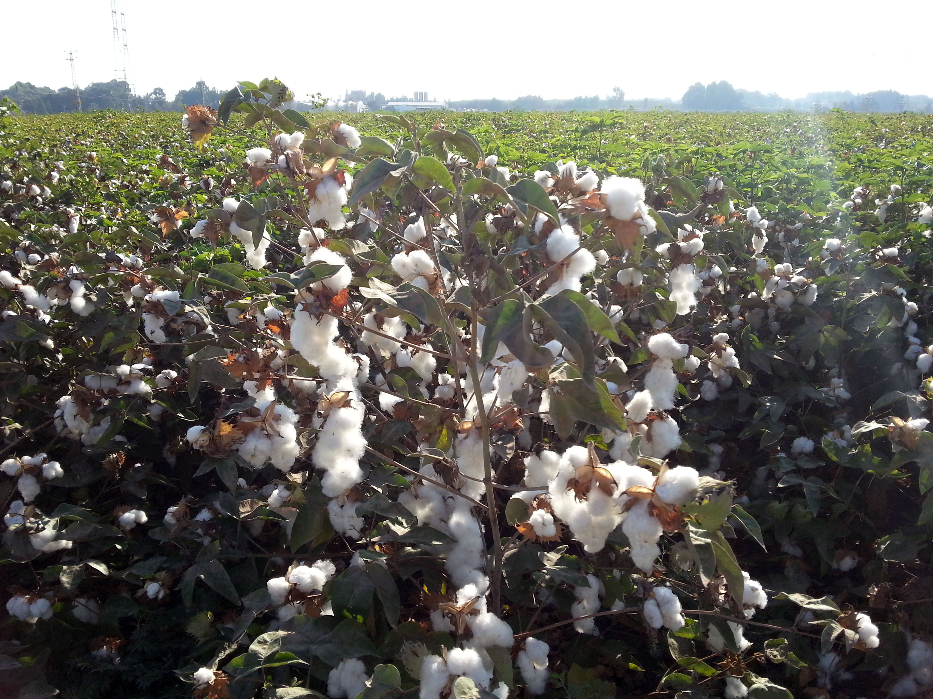 Cotton Plant on Hefer Valley - Israel